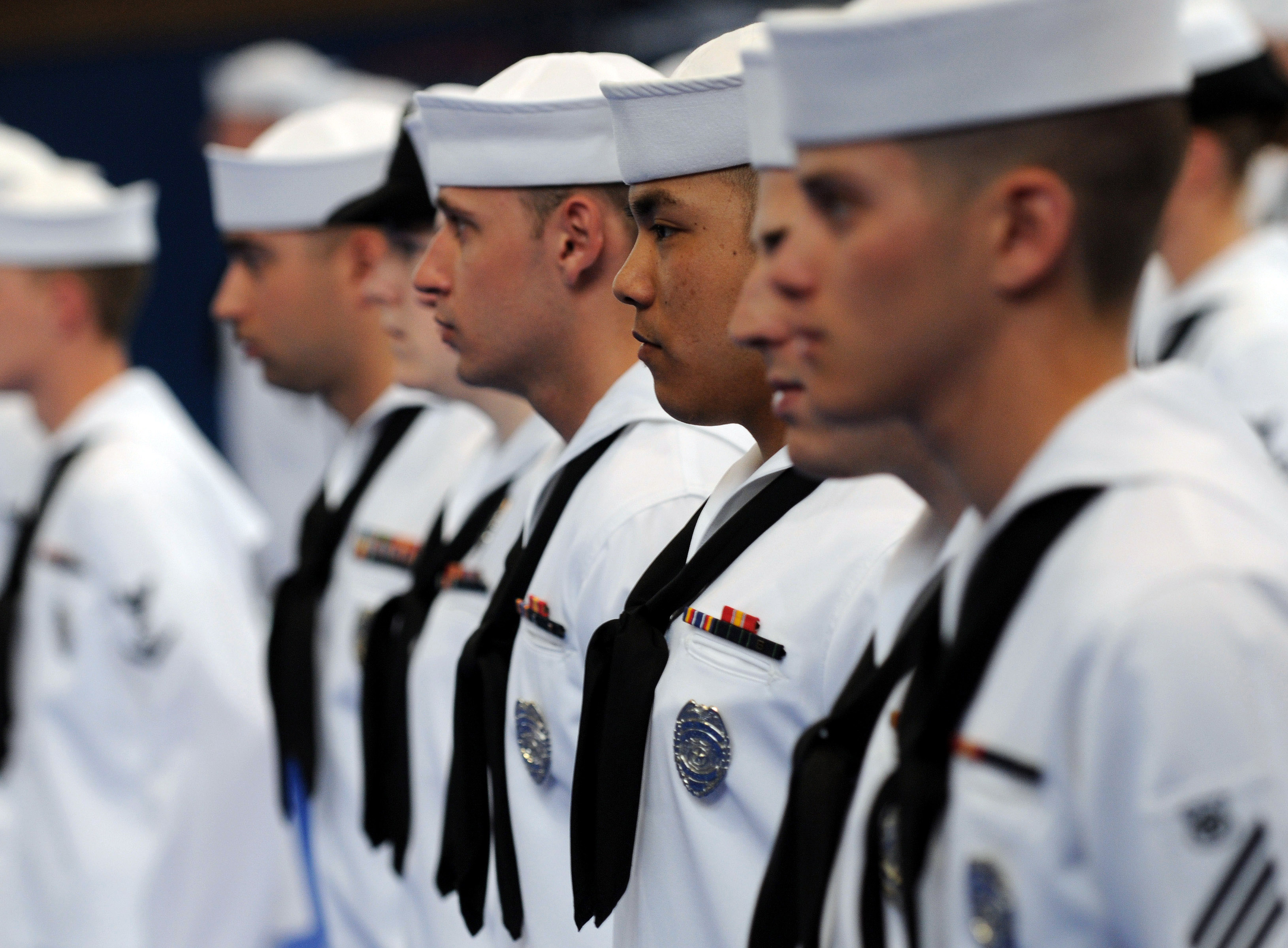 SASEBO, Japan (April 21, 2009) Sailors at Fleet Activities Sasebo (CFAS) stand in ranks during a service dress white inspection by Capt. Francis Xavier Martin, commander, Fleet Activities Sasebo. (U.S. Navy photo by Mass Communication Specialist 2nd Class Joshua J. Wahl/Released)